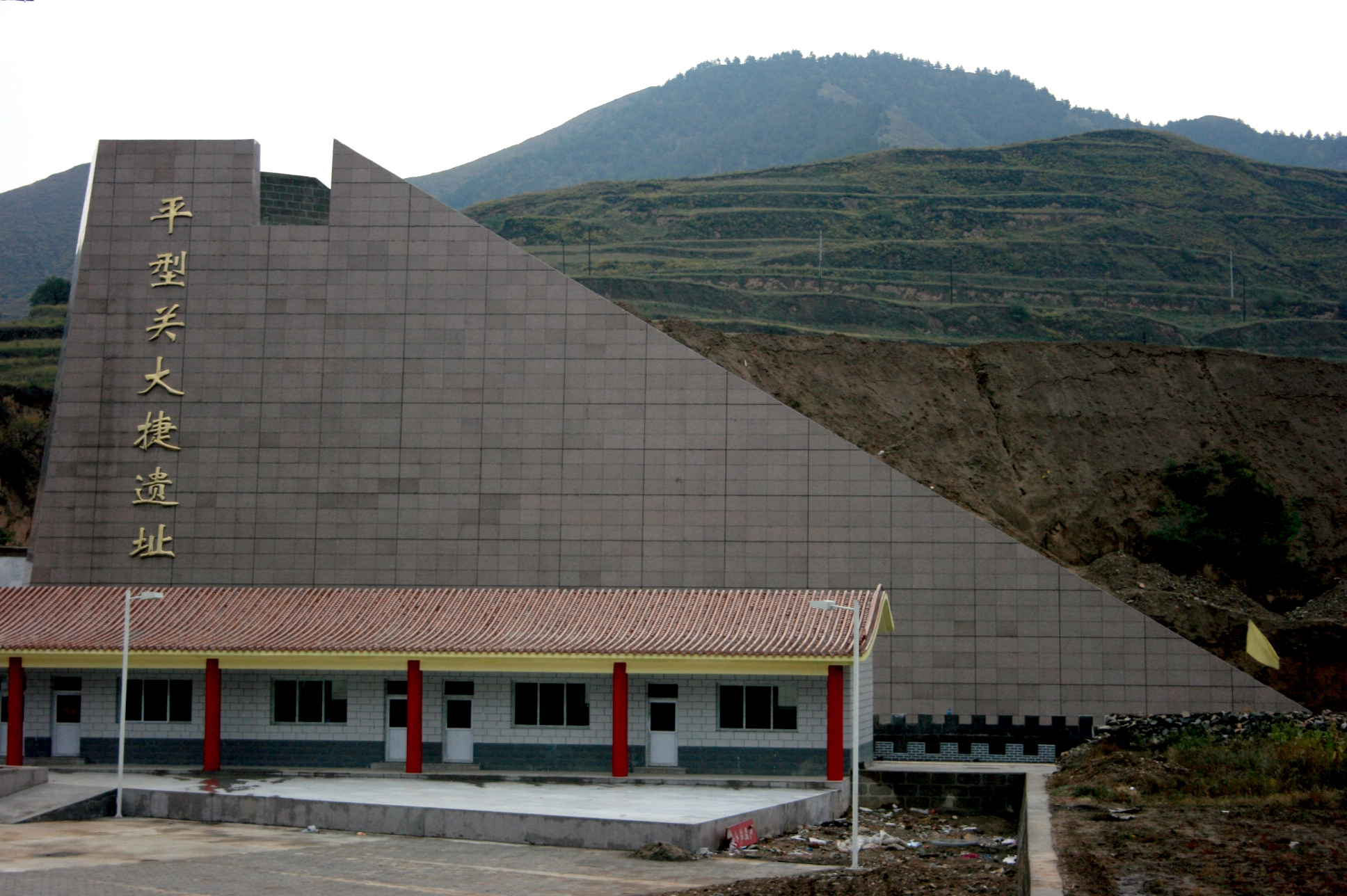 Photograph of the memorial hall at the site of the Battle of Pingxingguan, Pingxingguan Pass, Shanxi Province, China.